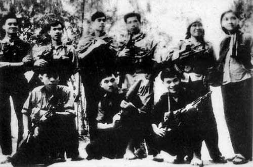 Viet Cong Saigon - Gia Dinh (T4) before the departure time to participate in Tet 1968 campaign.